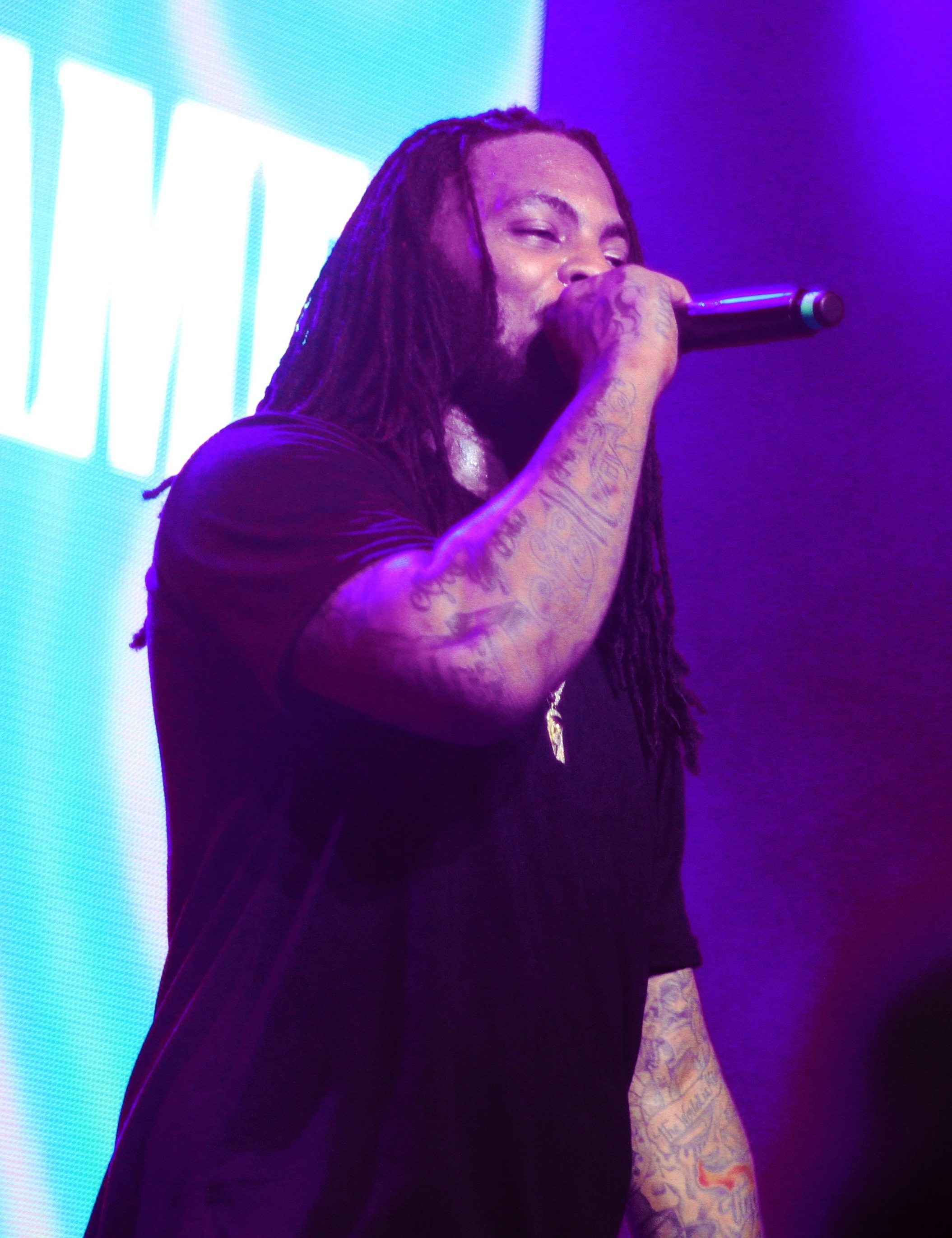 Waka Flocka in 2014